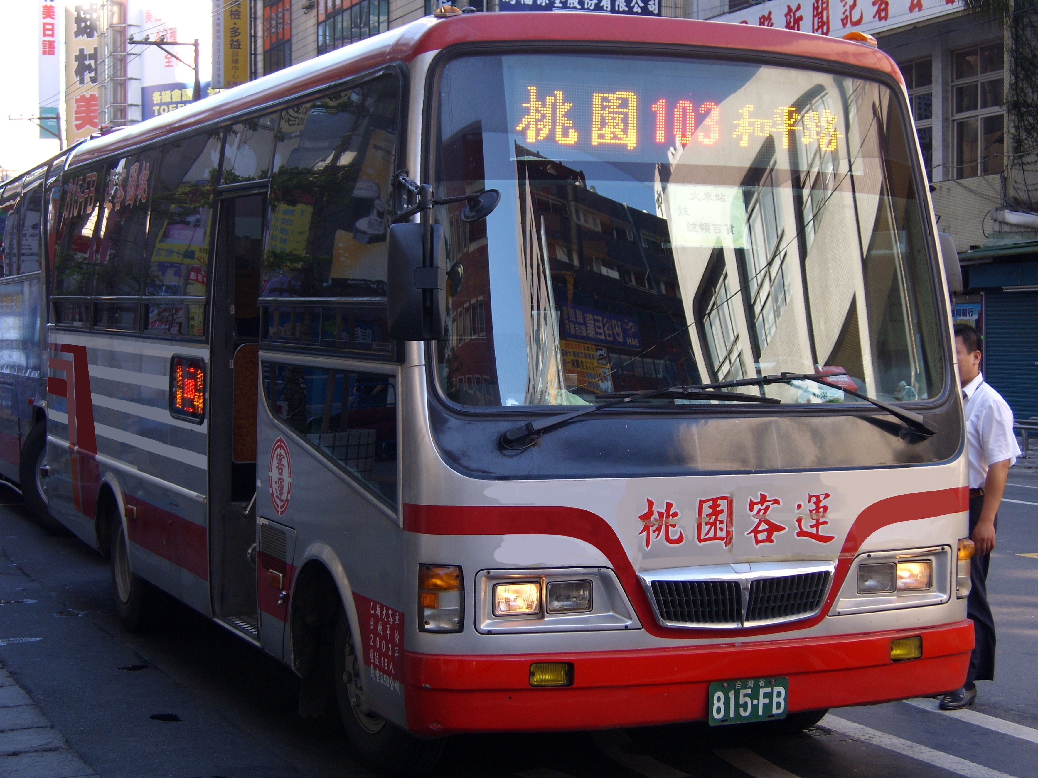 Isuzu NQR70PBL 2003 version by Taoyuan City Bus.